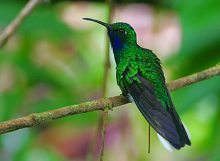 Image taken at Gilpin Trace, Main Ridge Rain Forest Preserve, Tobago. A large attractive hummer of rain forest. This range-restricted species is limited to a fairly inaccessible submonaten area in Venezuela with a small but easy to see population on the island of Tobago (but bizarrely not Trinidad).